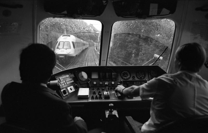 Juni 1988 Frankfurt a. M. - Lufthansa-Airport-Express